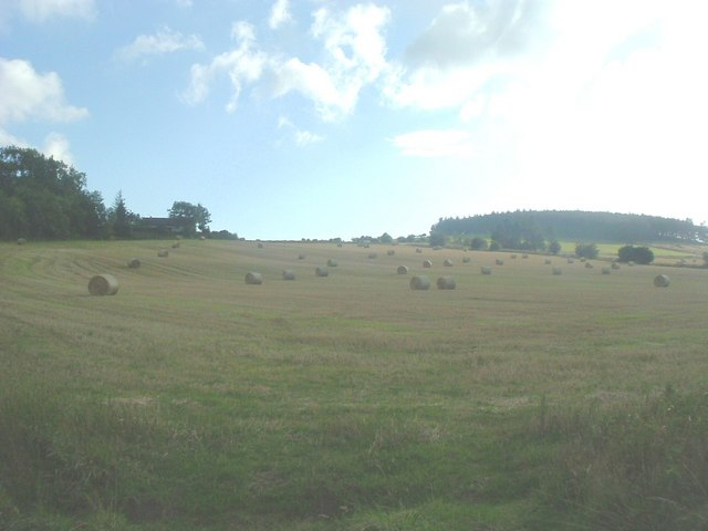 Site of the Battle of Alford. Fought on 2nd July 1645. One of several victories that year for Royalist Montrose in the Civil War.